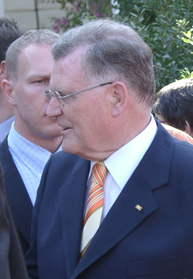 Erwin Teufel 2004-09-04 in Stuttgart, Germany